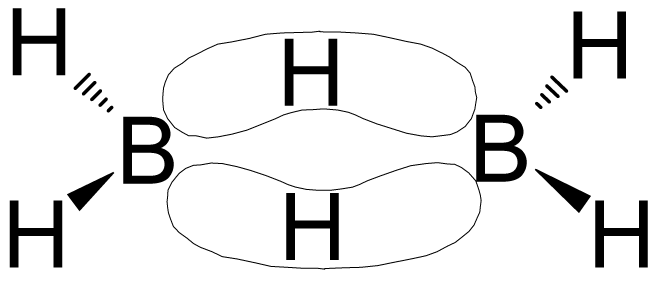 Chemical structure of Diboron (Diboran)